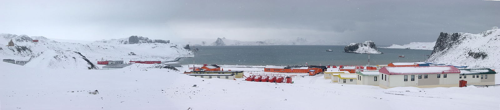 Villa Las Estrellas. View to the bay